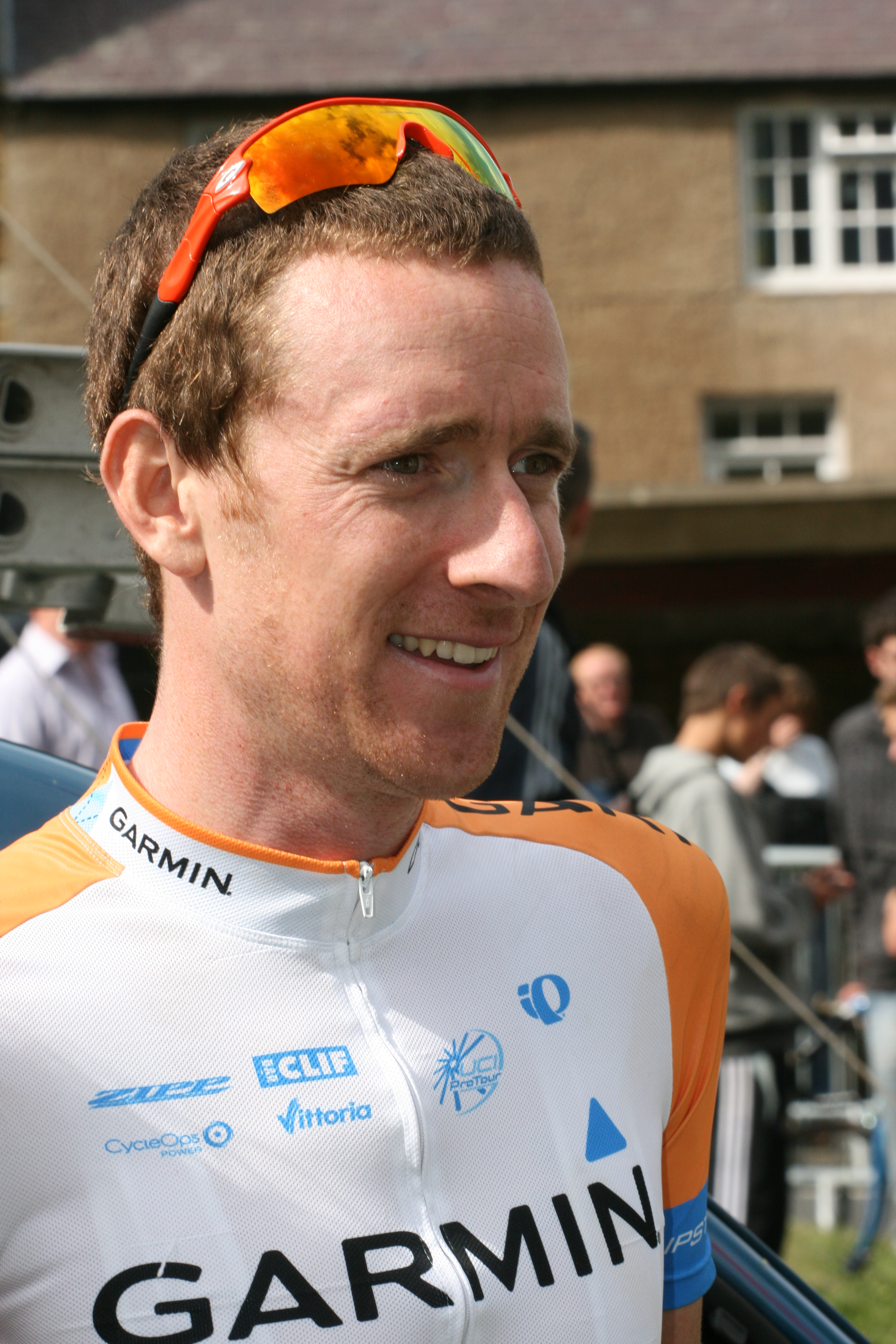 Bradley Wiggins in Stamfordham after winning the 2009 Northern Rock Cyclone Beaumont Trophy.